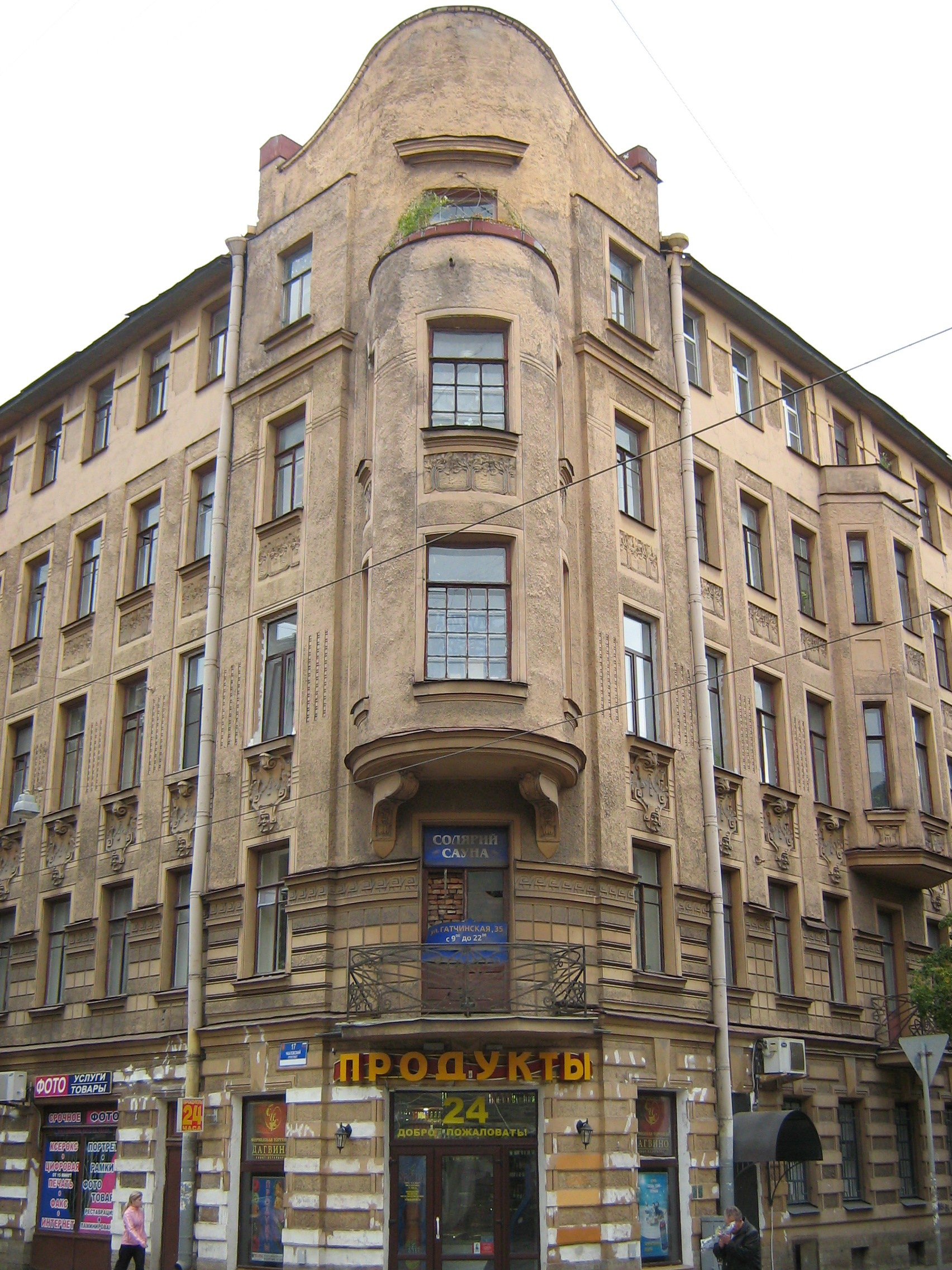 Gatchinskaya street, 35 / Chralovsky avenue, 17, Saint-Petersburg, Russia. Architect P.M.Mulkhanov, 1907.